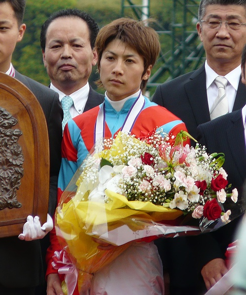 Syu-Ishibashi20120429